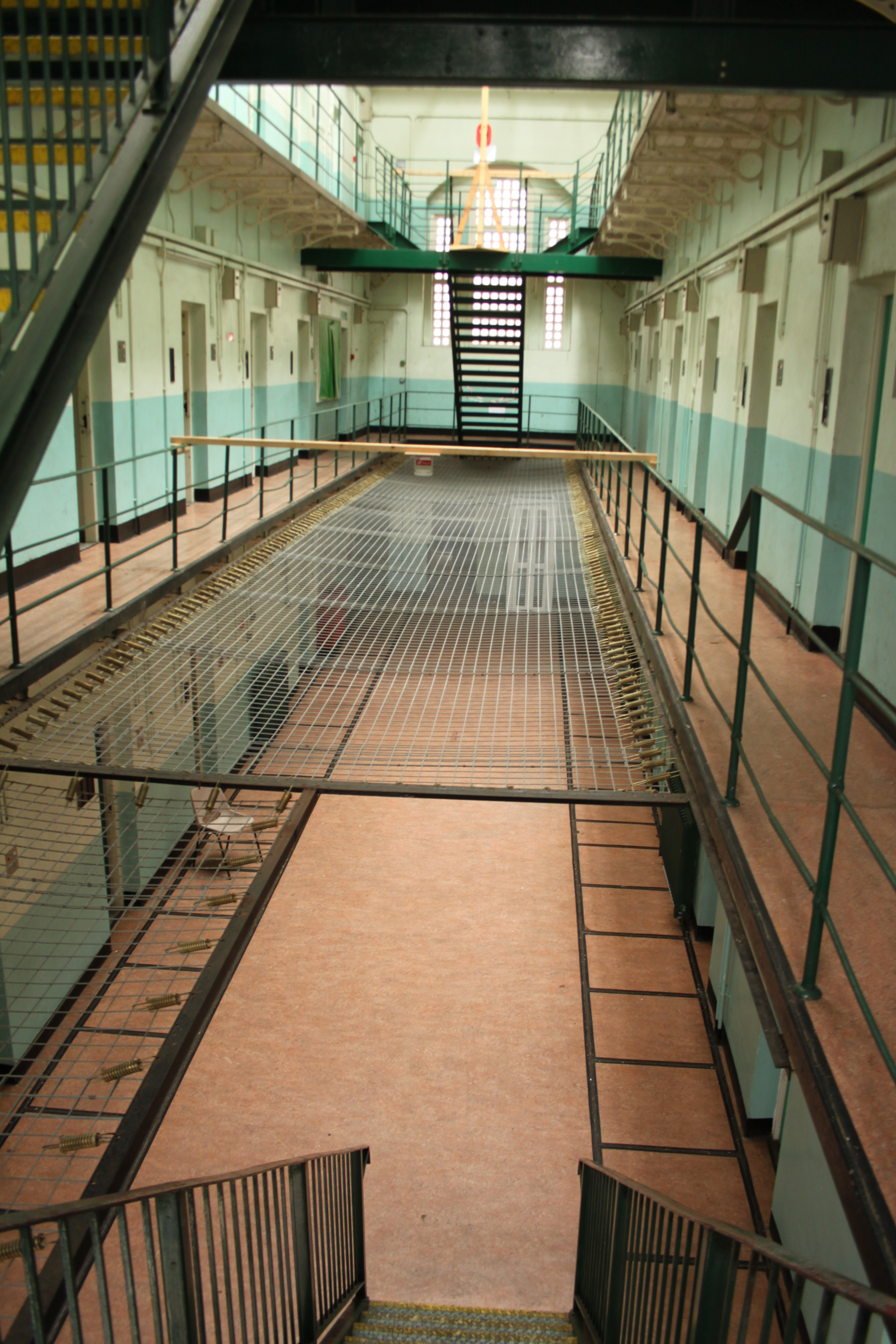 Photos of HMP Shepton Mallet taken March 2018